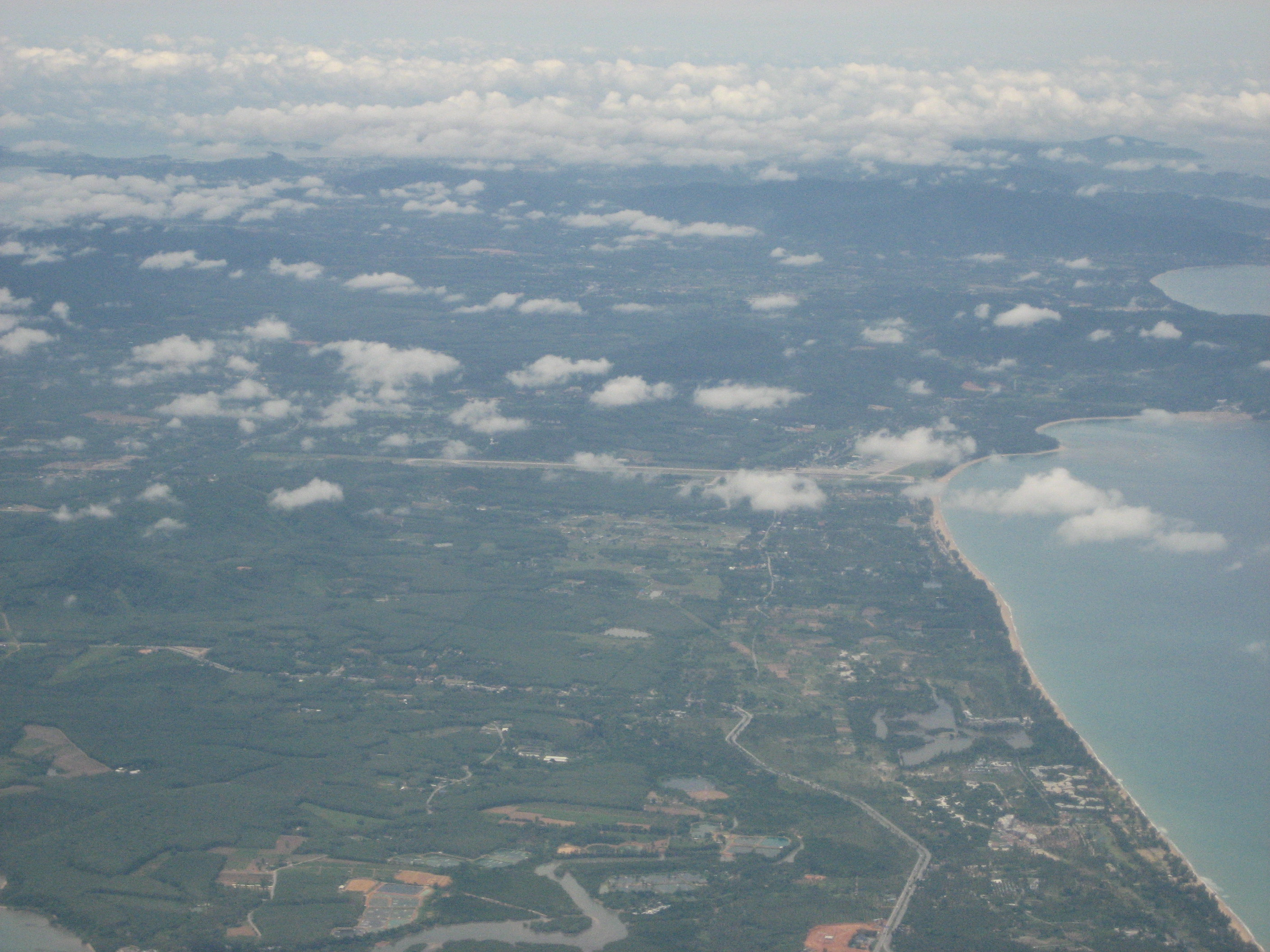 Image of Phuket International airport from the air